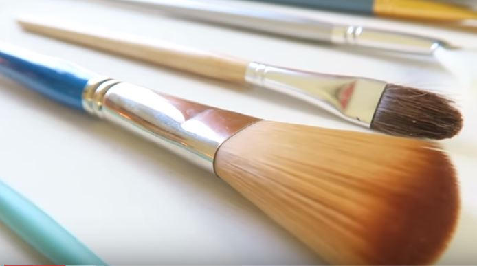 Watercolor brushes